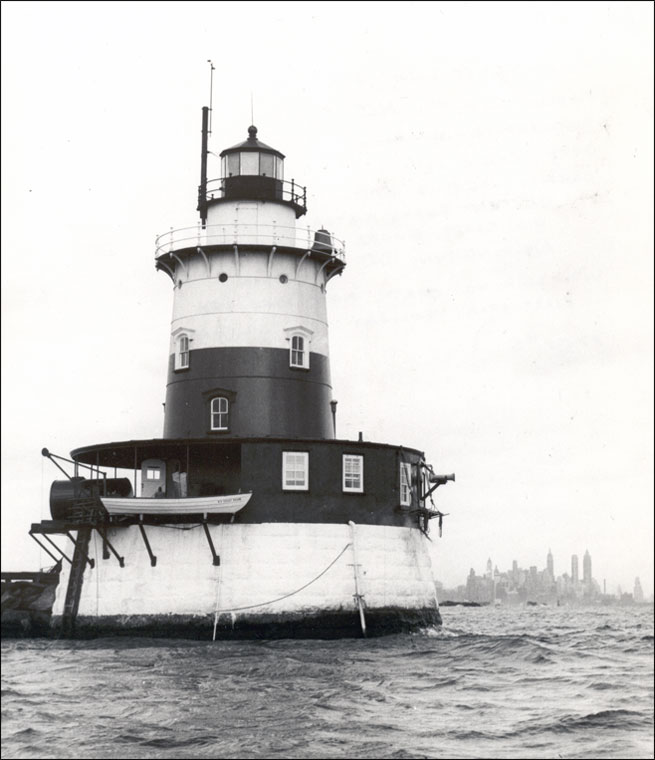 Robbins Reef Lighthouse in 1951, photo taken by U.S. Coast Guard